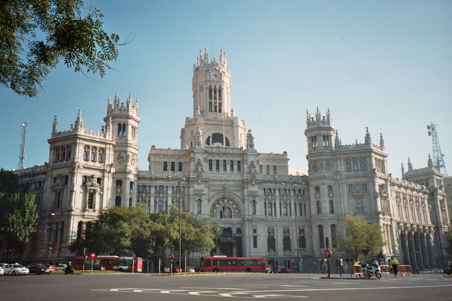 Description: Palacio de Comunicaciones (City Hall), at the Plaza de Cibeles (square) in Madrid (Spain). Source: self-made, I release it into the public domain.